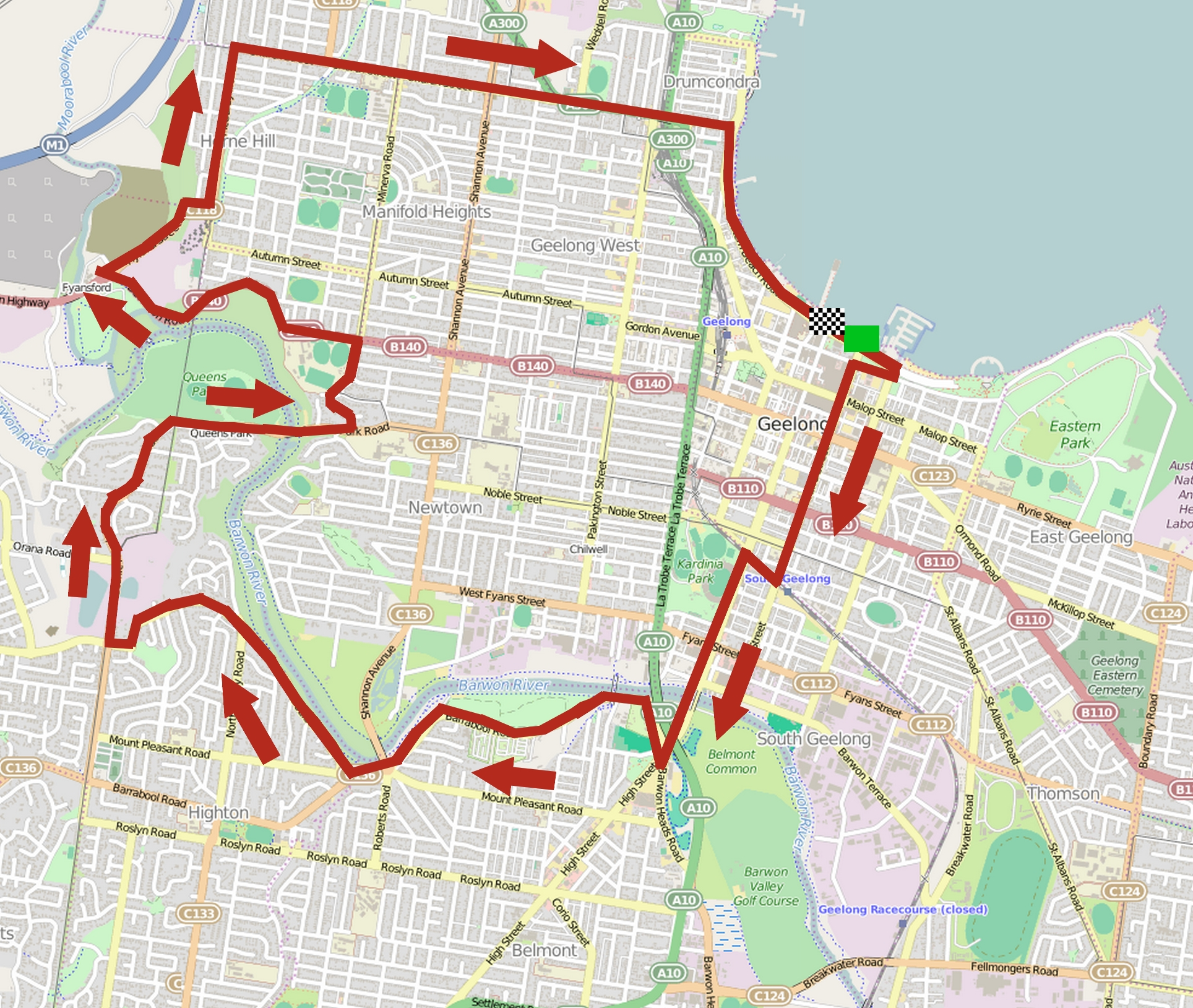 Parcours du circuit local de la Cadel Evans Great Ocean Road Race 2015. This map may be incomplete, and may contain errors. Don't rely solely on it for navigation.